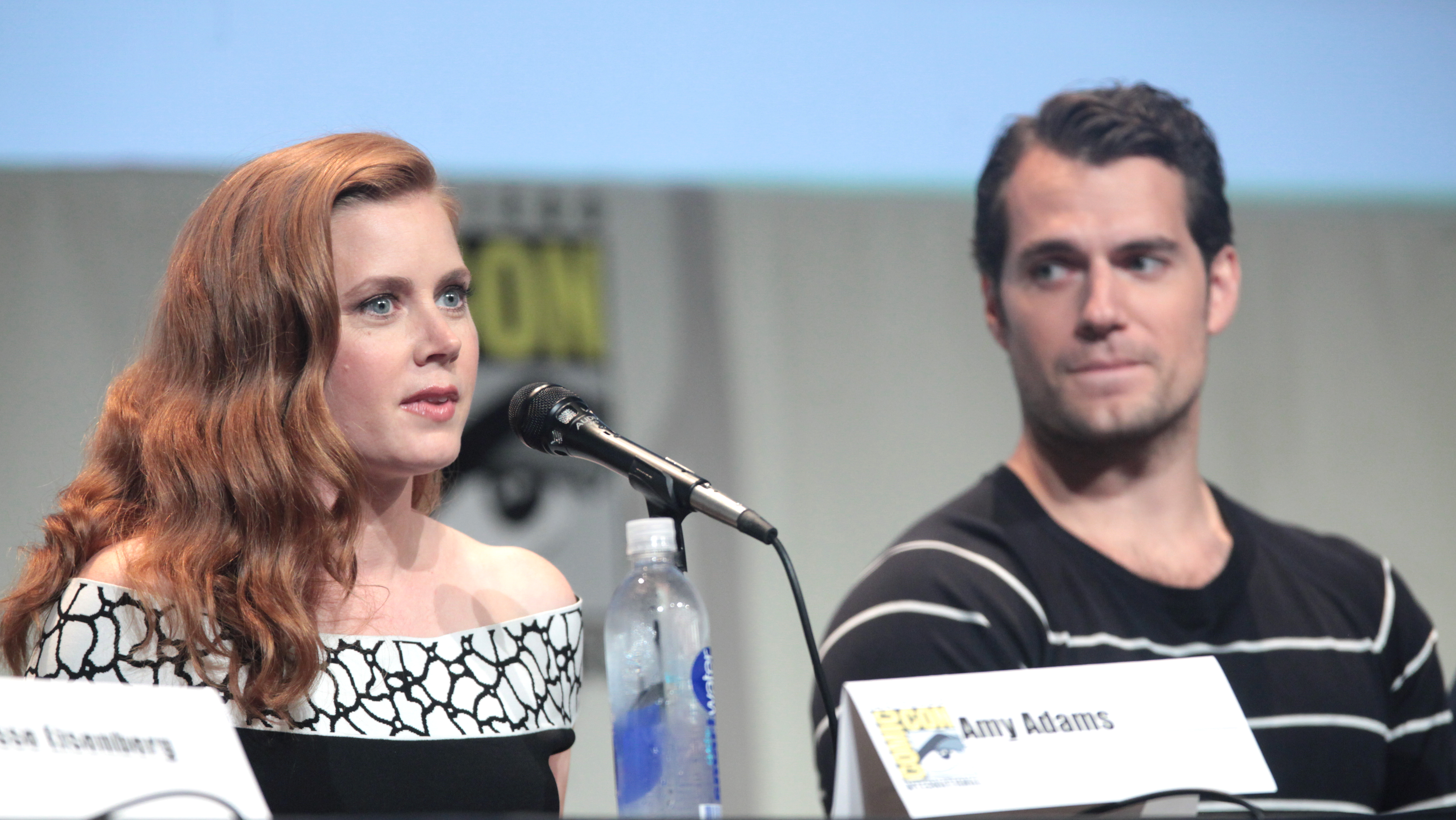 Amy Adams and Henry Cavill speaking at the 2015 San Diego Comic Con International, for "Batman v Superman: Dawn of Justice", at the San Diego Convention Center in San Diego, California.